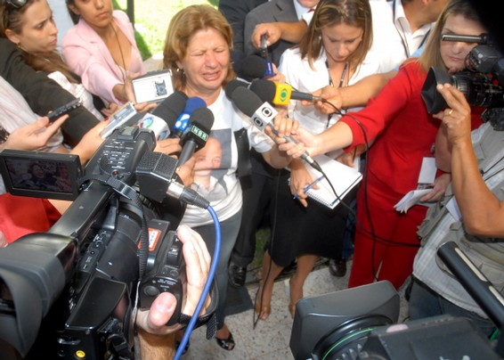 Relatives of Gol 1907 victims react after the presentation of the final accident report from CENIPA